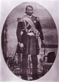 This is a photo of a ruler of the emirate of Ardalan called Amanollah Khan Ardalan (r. 1846-1848, 1860-1867)